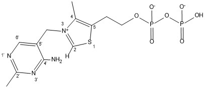 This file represents thiazolium pyrophosphate with atom numbers of the heterocycles.